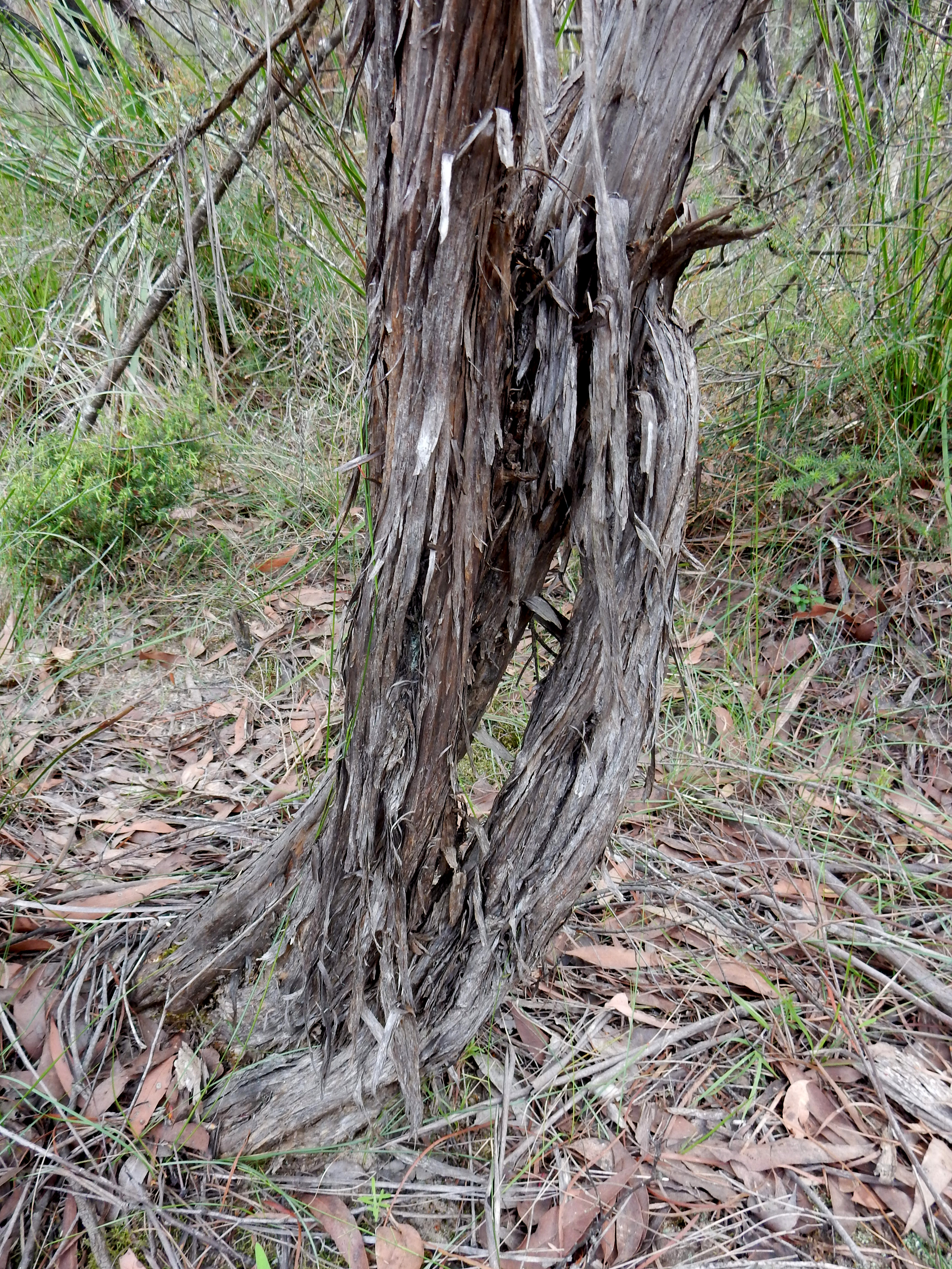 beside Middle Harbour Creek. Garigal National Park, Sydney, Australia. Likely to be Leptospermum deanei